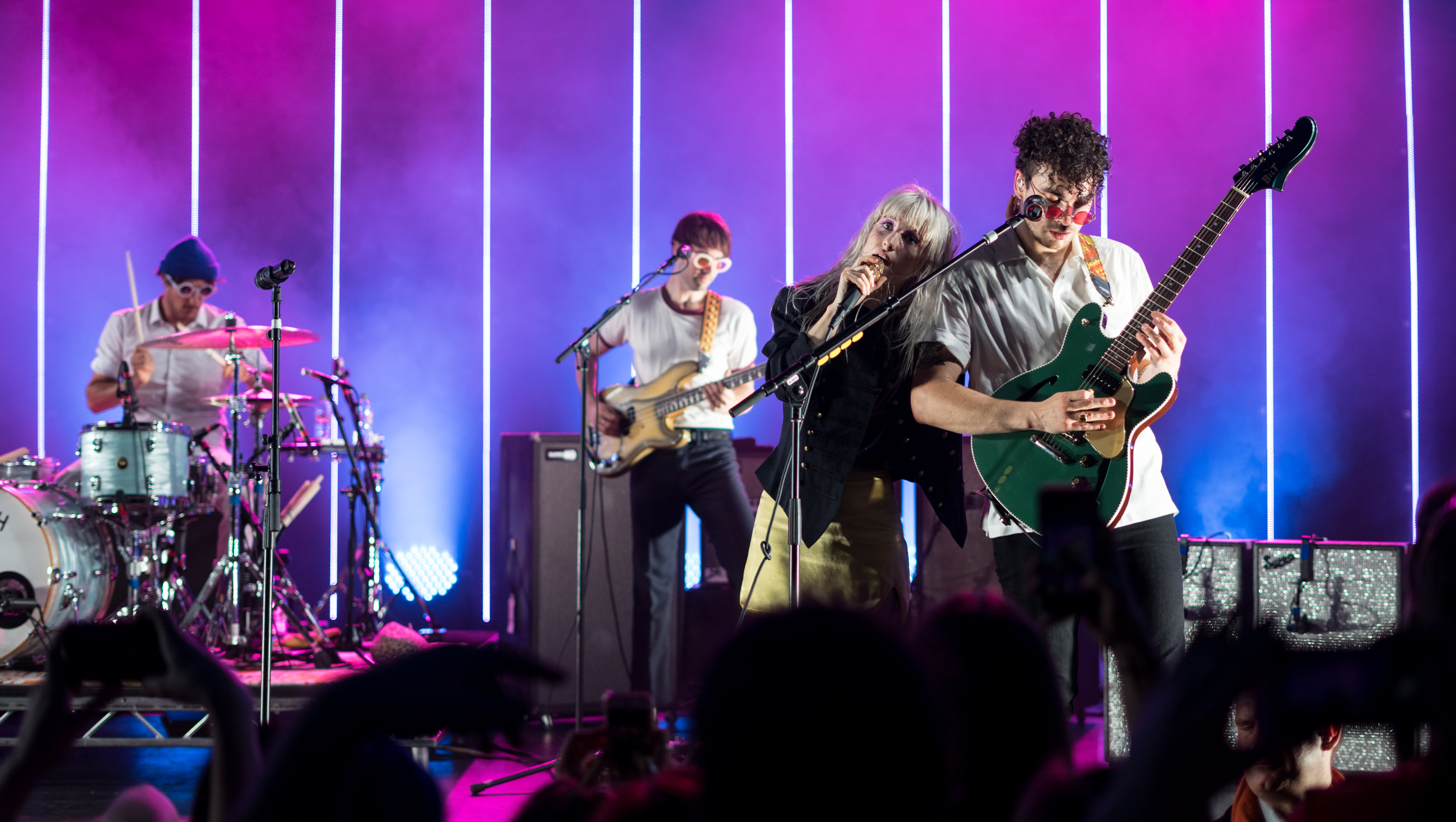 Paramore live concert at Royal Albert Hall, London, UK.